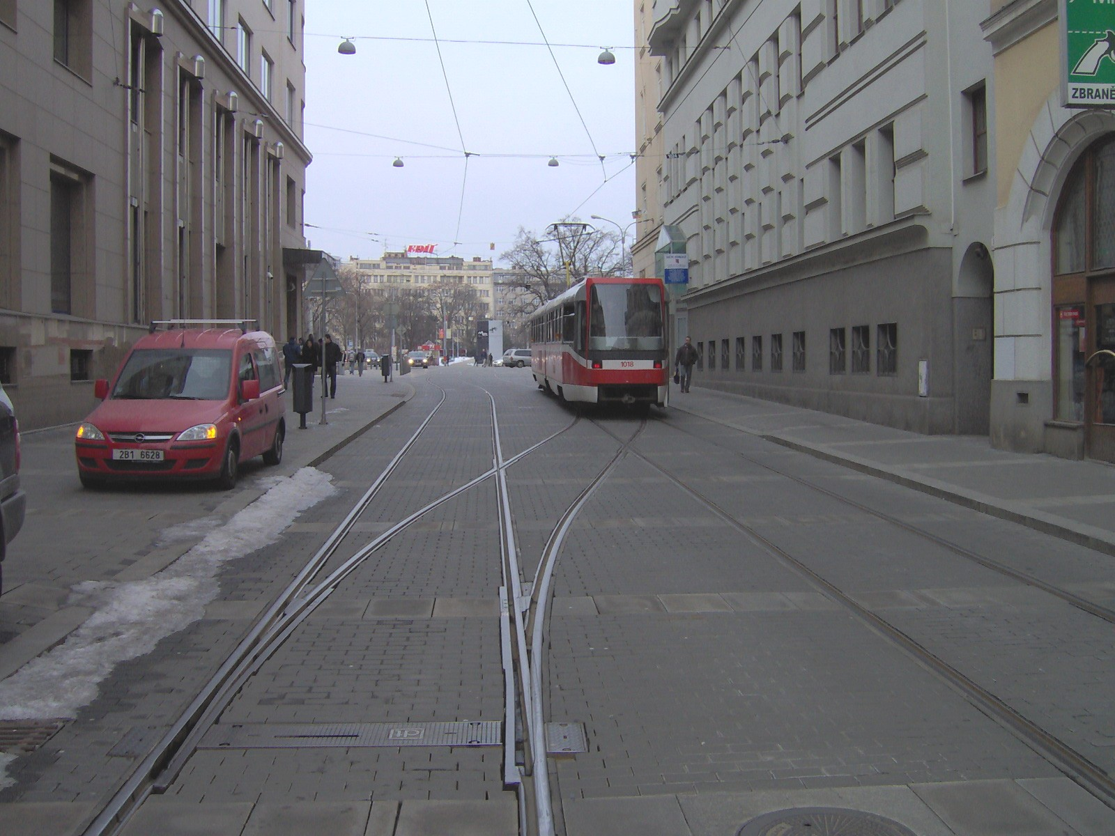 Tram track in Rašínova street, Brno, Czech Republic